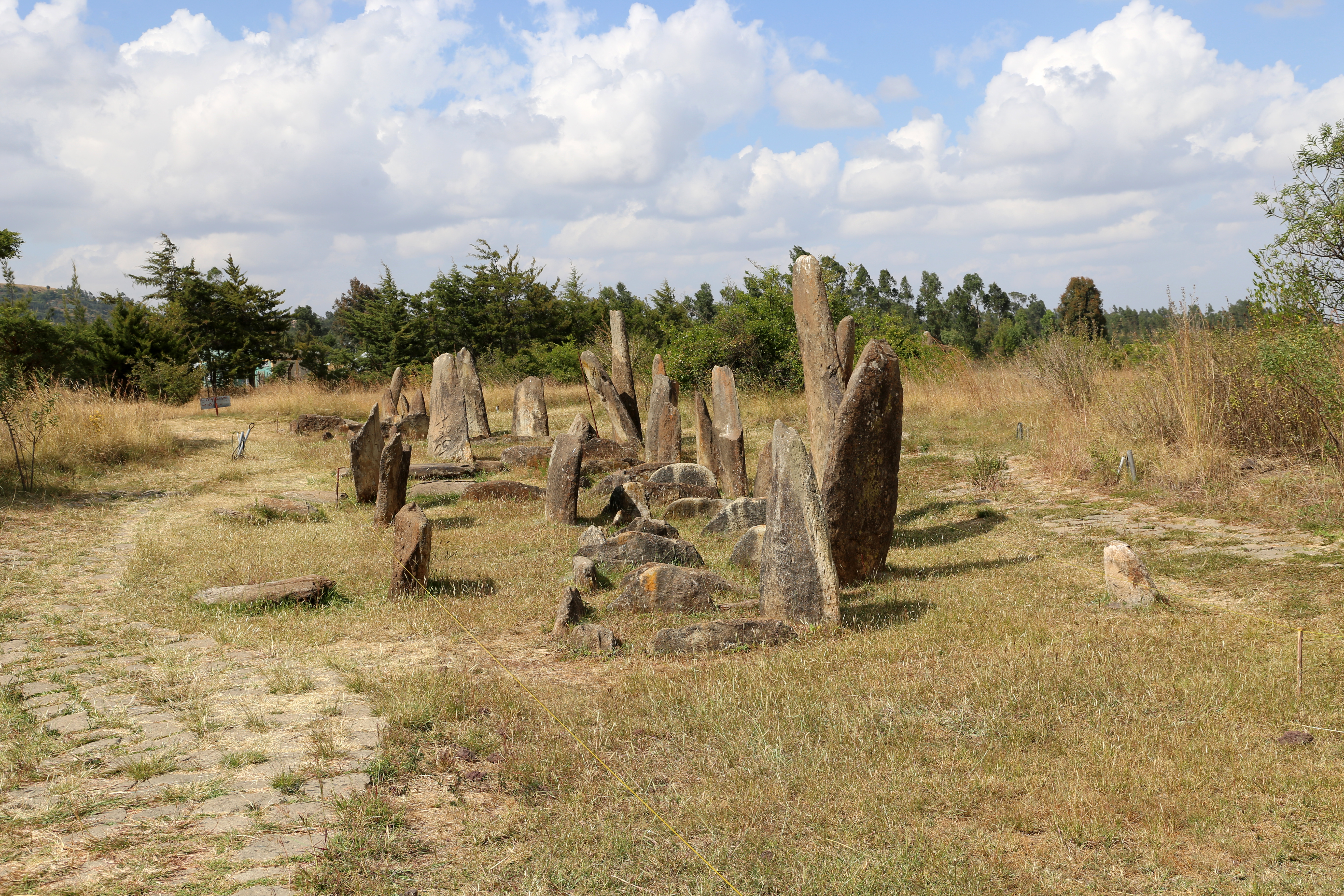 Tiya, Ethiopia